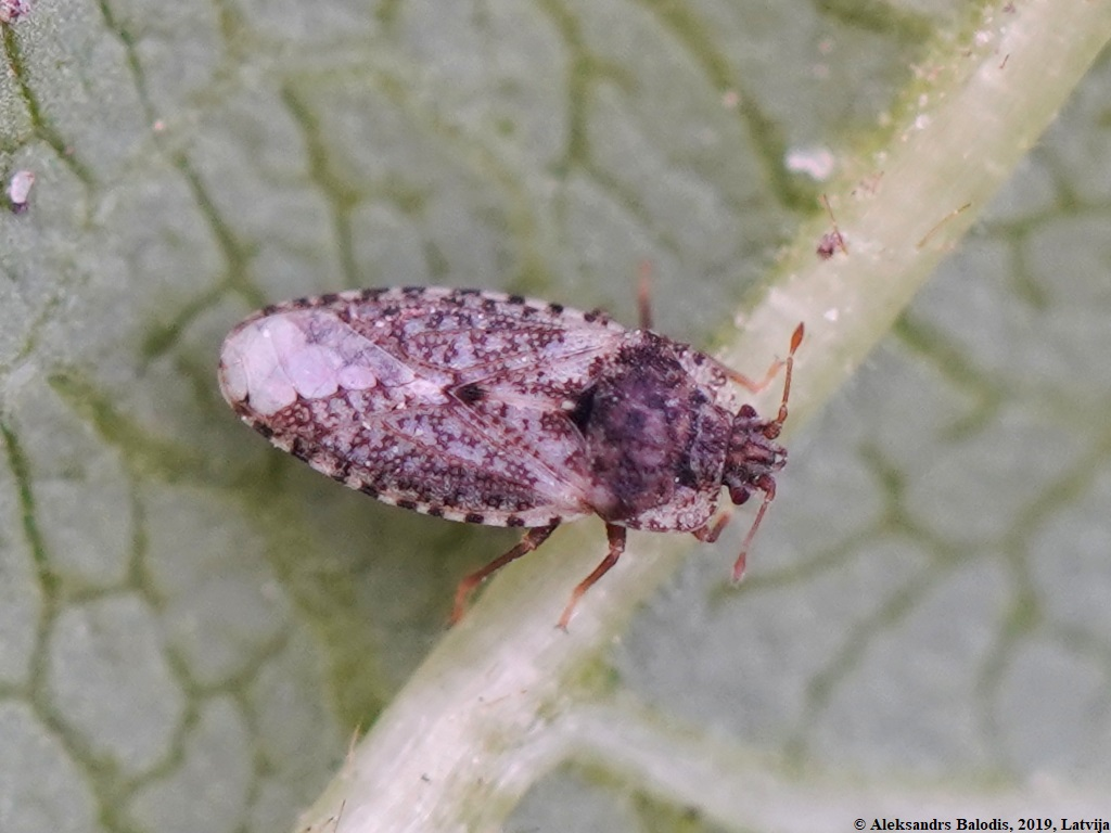 Parapiesma quadratum